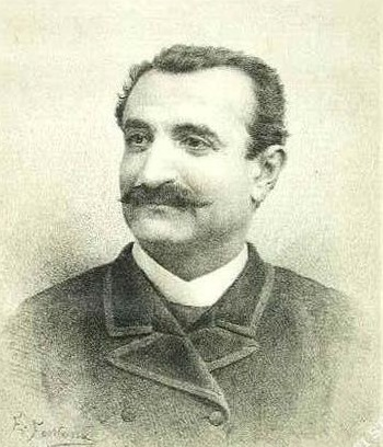 Portrait of Italian opera singer Giovanni Battista De Negri| from the cover of Il Teatro Illustrato